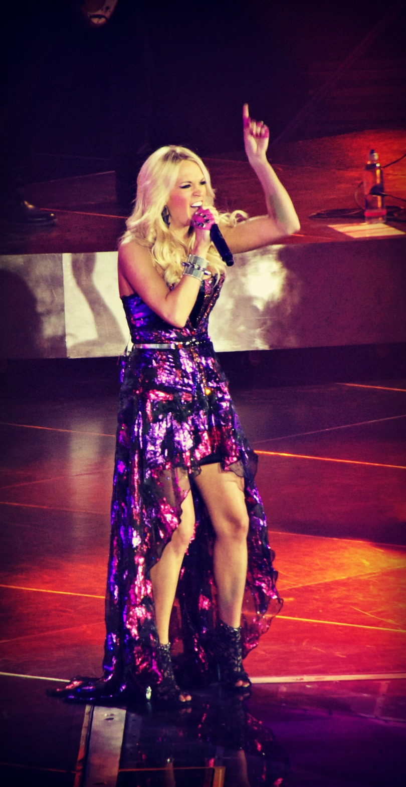 Message me to use photo thanks :)